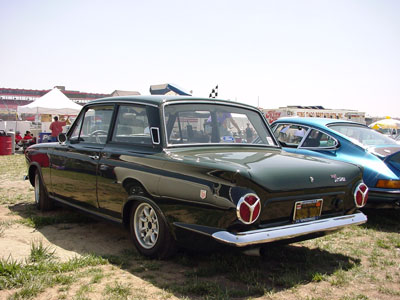 Ford Cortina GT